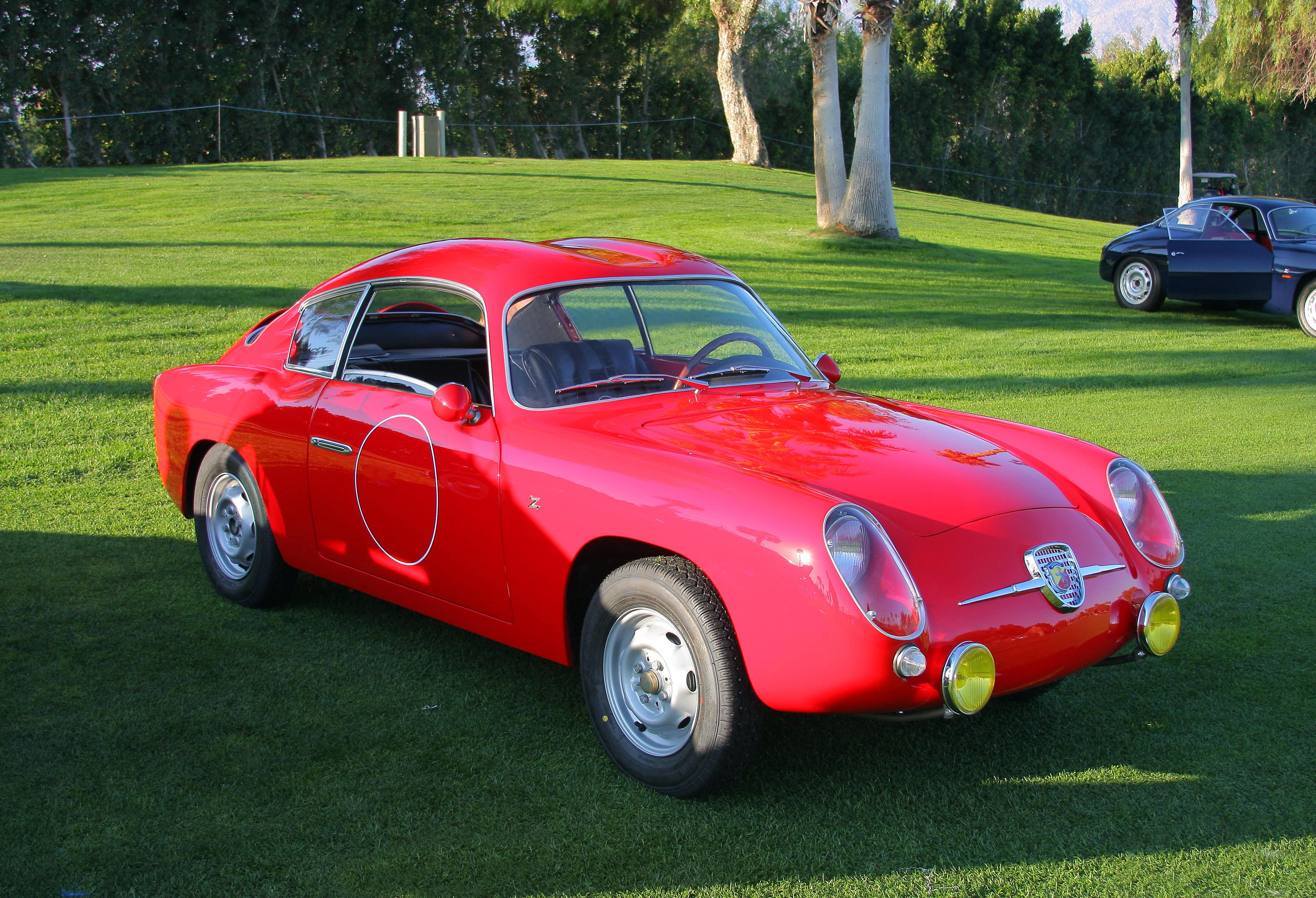 2014 Desert Classic Concours d'Elegance, Palm Springs, CA